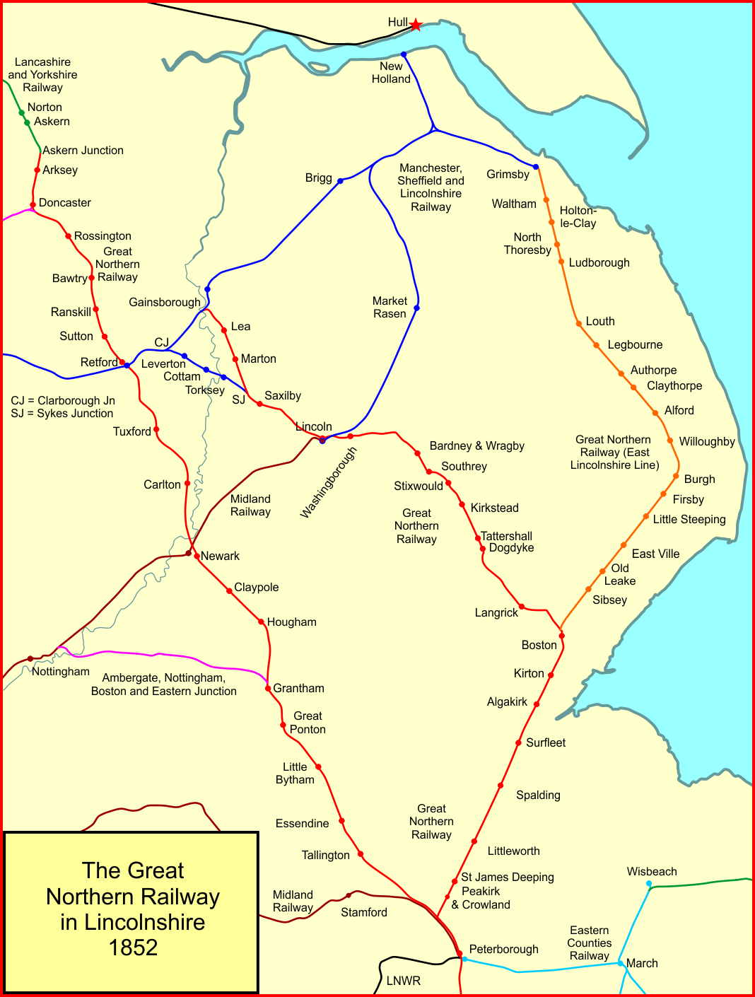 System map of the Great Northern Railway in Lincolnshire, England, in 1852